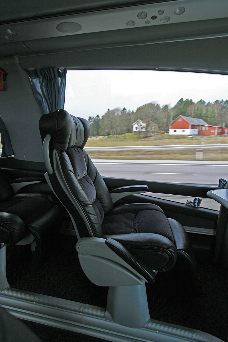 Nettbuss Bus4You comfort seat in a 2007 Irizar PB.